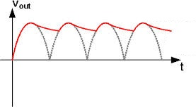 rectifier